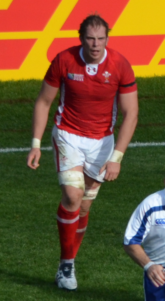 DSC_0832 2011 Rugby World Cup Wales vs Samoa